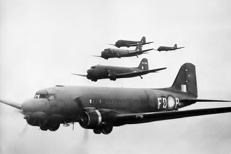 New Guinea. c. 1944. Douglas C47 Dakota transport aircraft of No. 34 Squadron RAAF engaged in a supply dropping mission.